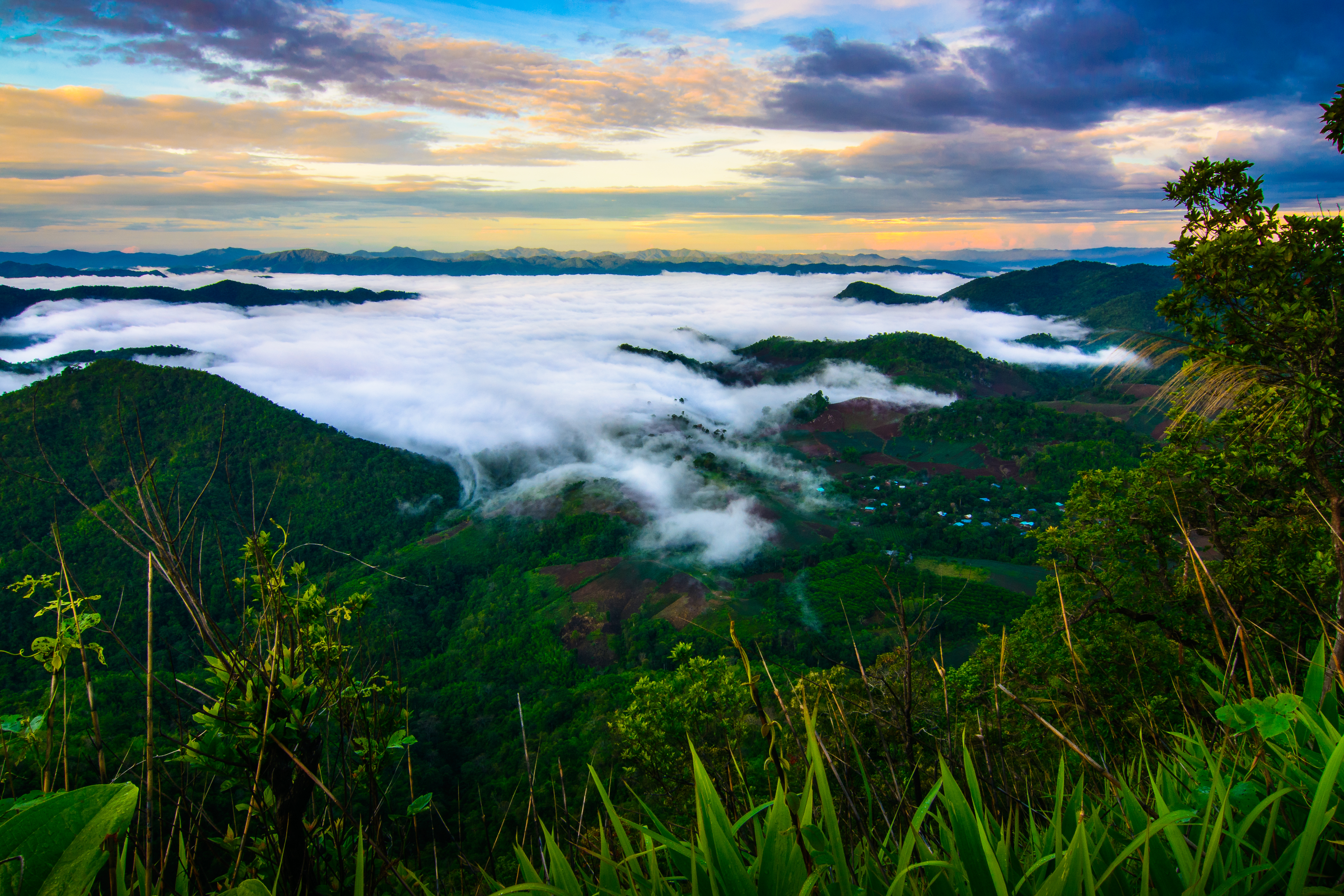 At the top of Khao Thevada (Angel Mountain) a 1,123 metre (3,684 ft).